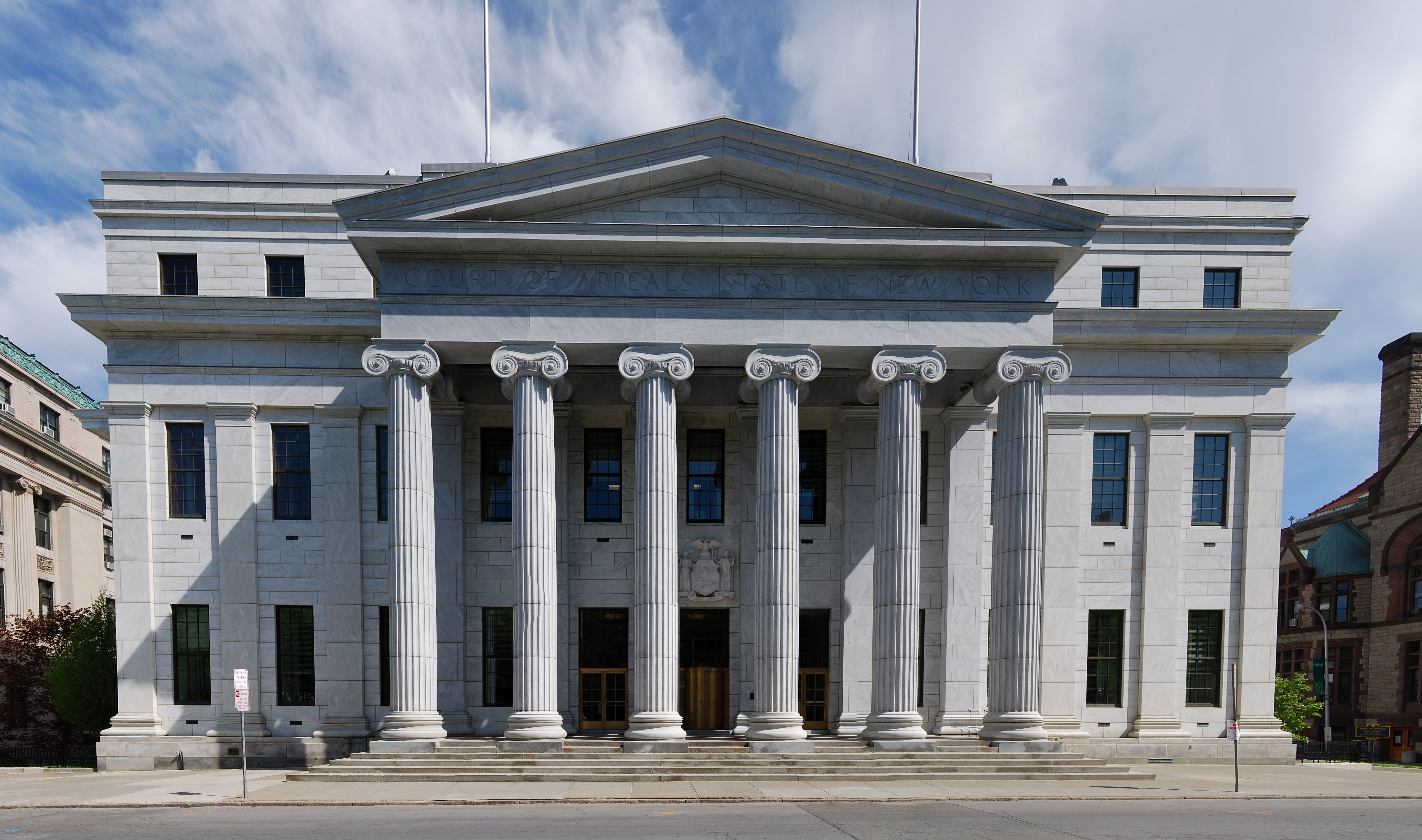 New York State Court of Appeals in Albany, New York, the state's highest judicial body